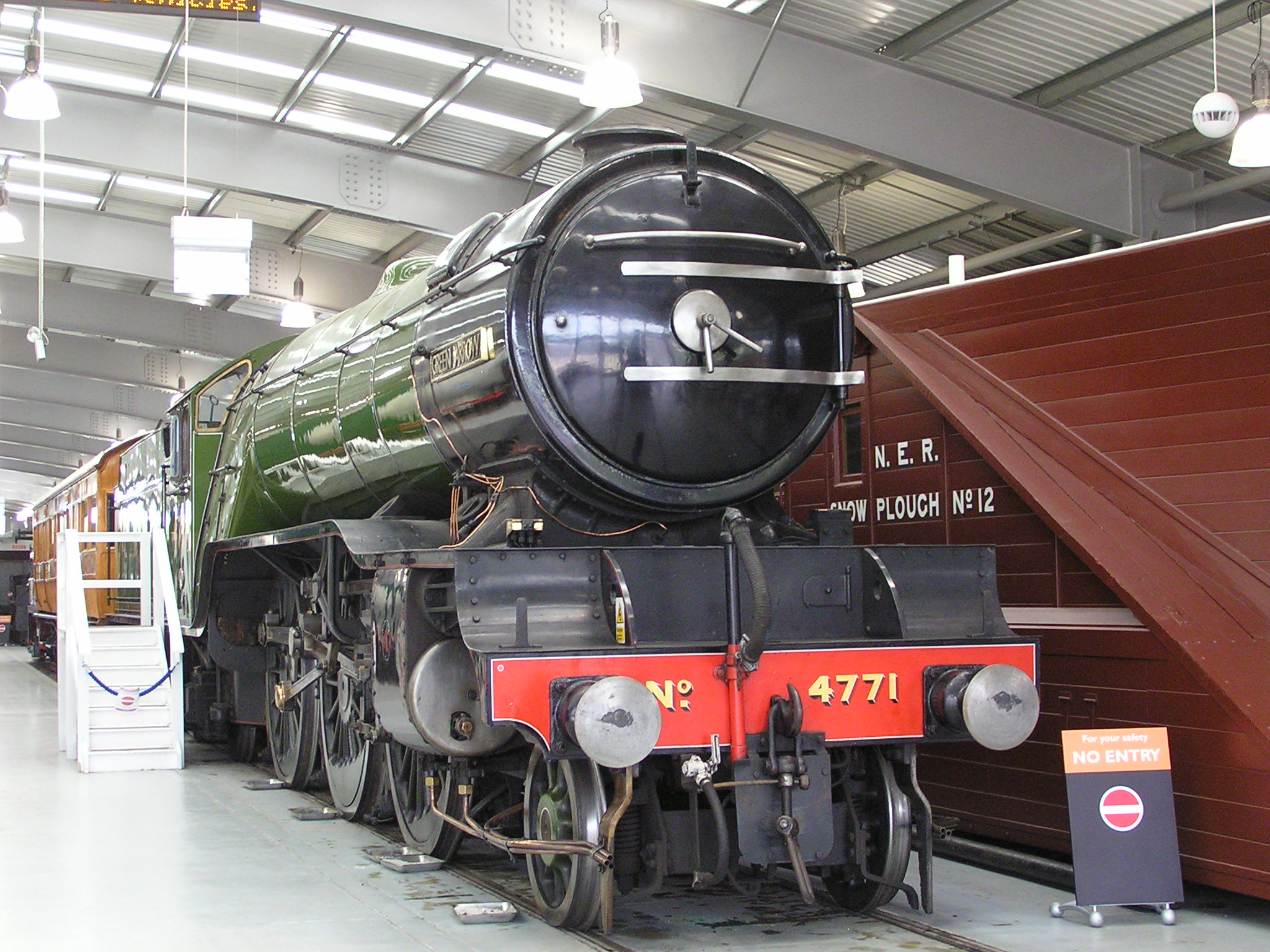 LNER V2 2-6-2 4771 'Green Arrow' (1936) & NER snow plough, Locomotion Shildon 29.06.2009 P6290052